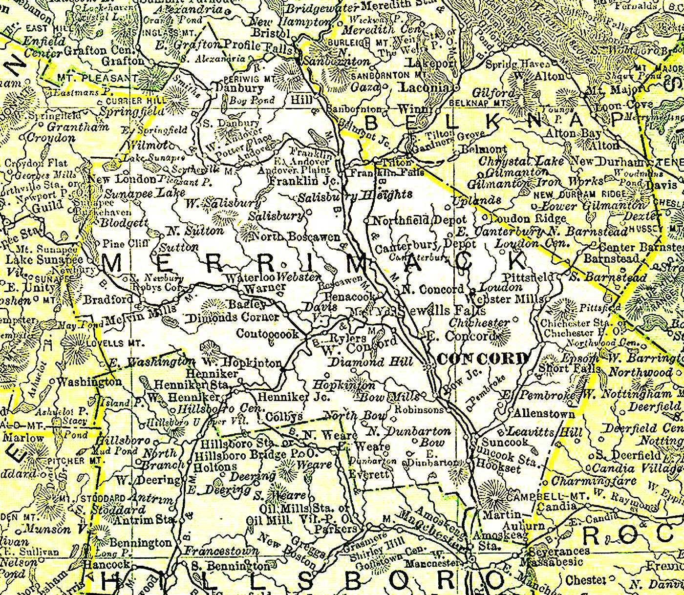 Maps of Merrimack County, NH